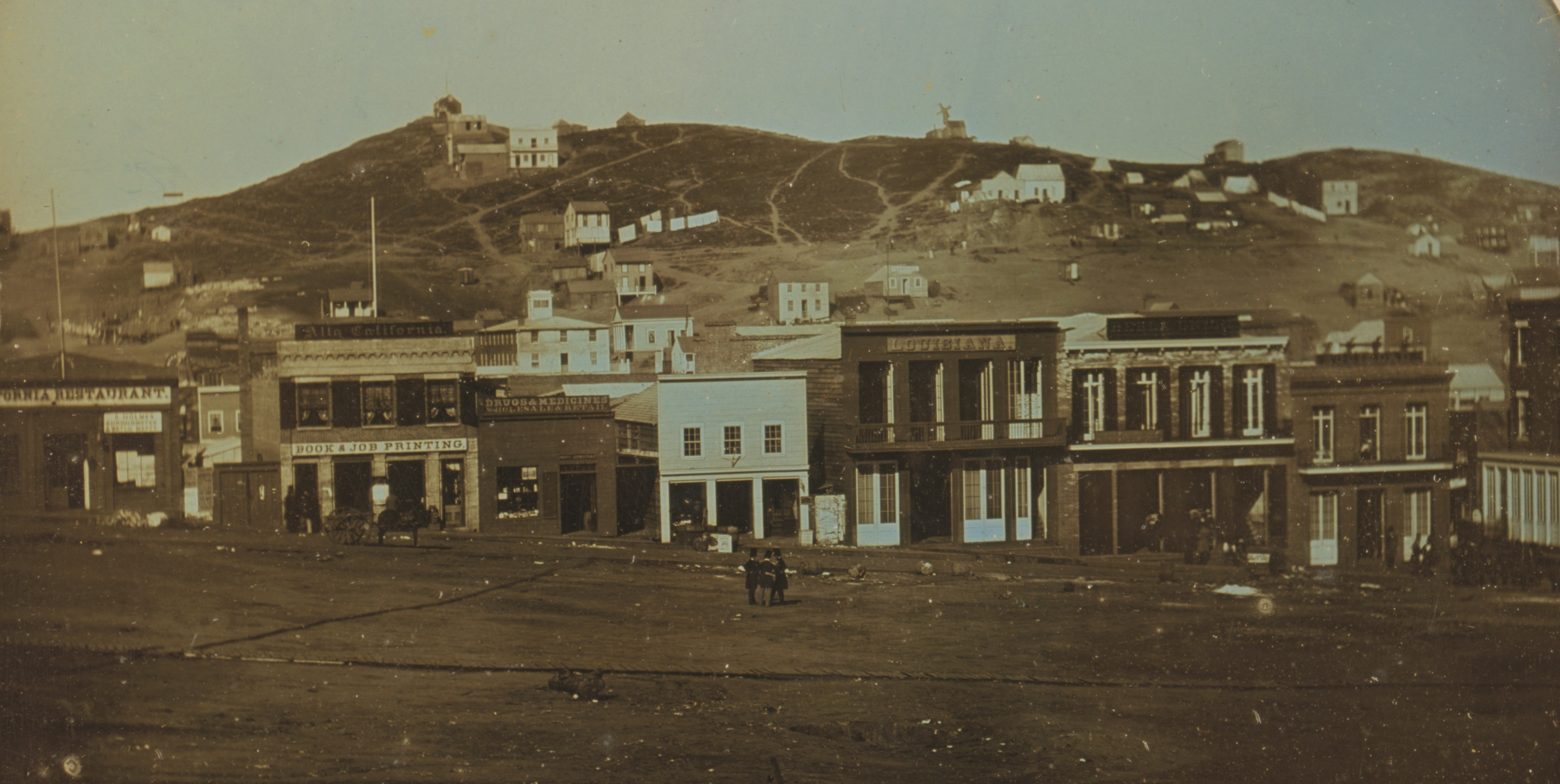 Portsmouth Square, San Francisco, California. Early daguerrotype. Signs in image include: California Restaurant, Book and Job Printing, Louisiana, Sociedad, Drugs & Medicines Wholesale & Retail, Henry Johnson & Co, Alta California, Bella & Union, A. Holmes.